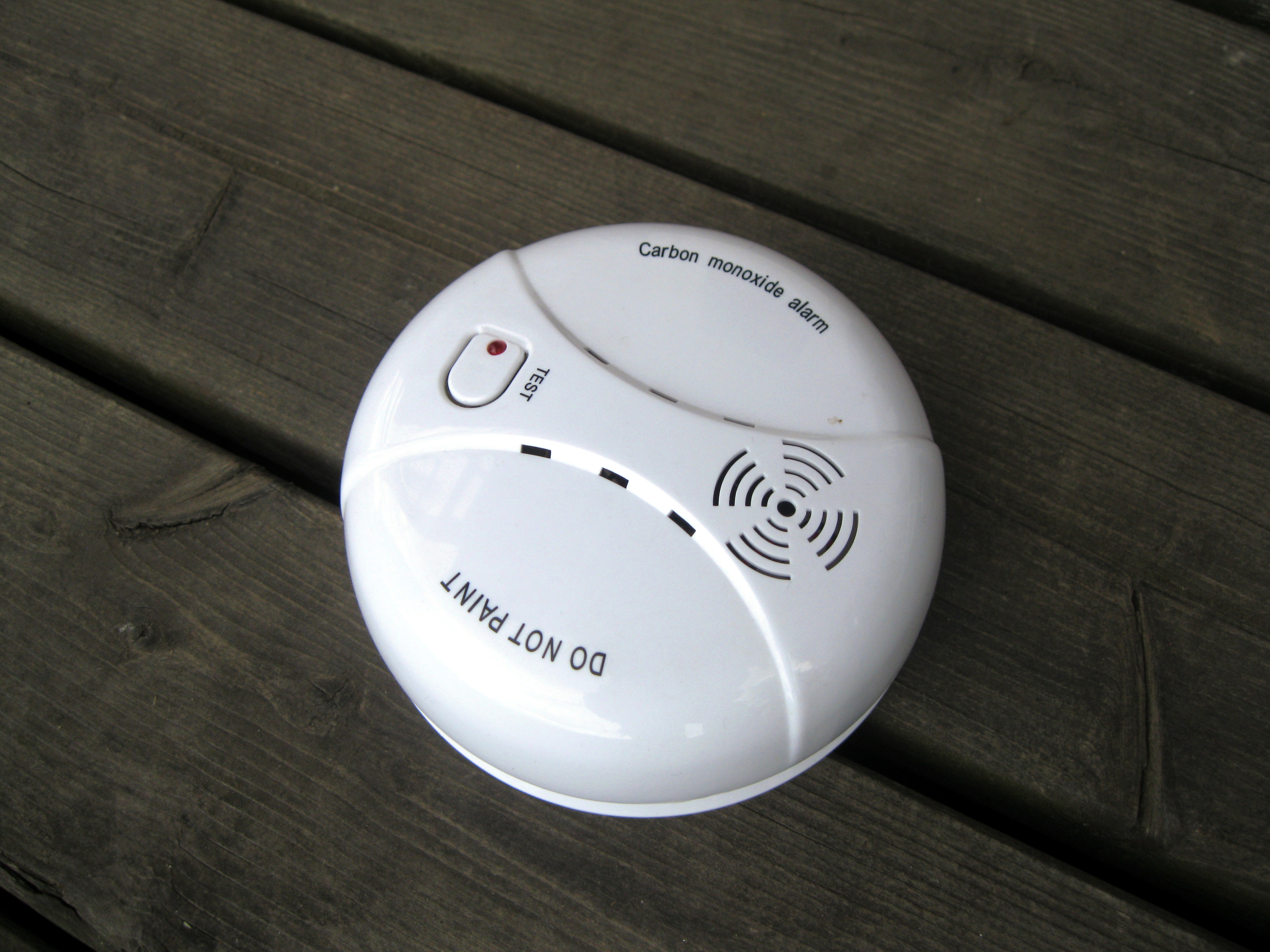 Carbon monoxide alarm.